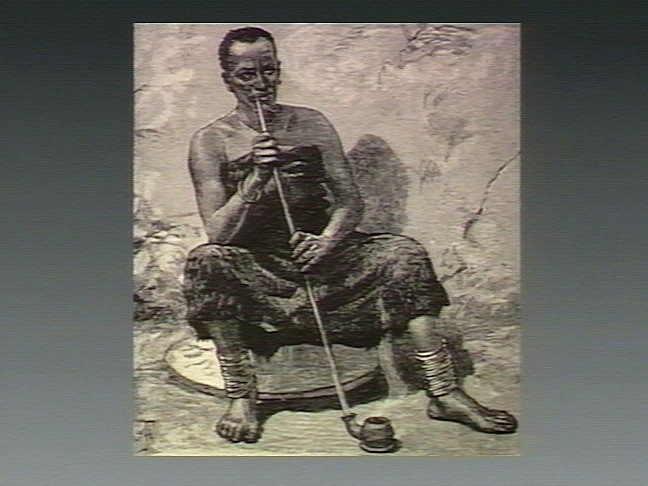 An African chief smoking a long-stemmed pipe. Wood-engraving. Iconographic Collections